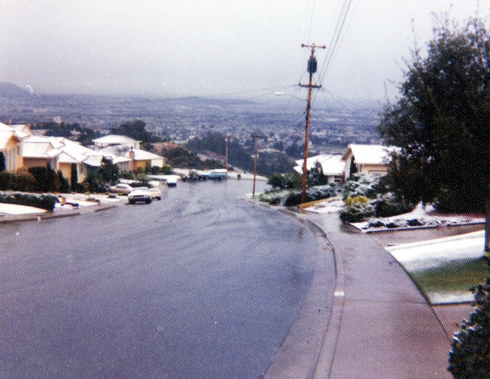 San Bruno, California. Rare snowfall in Crestmoor, February 5, 1976 (Robert E. Nylund)